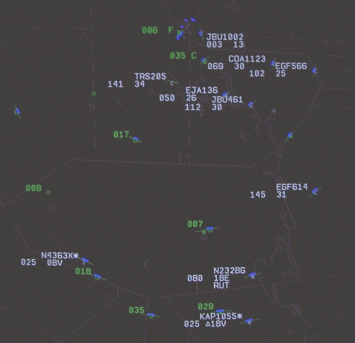 A scope at the Boston Consolidated TRACON during the morning departure rush. Taken July 15, 2007. A scope at the Boston Consolidated TRACON during the morning departure rush. Taken July 15, 2007.